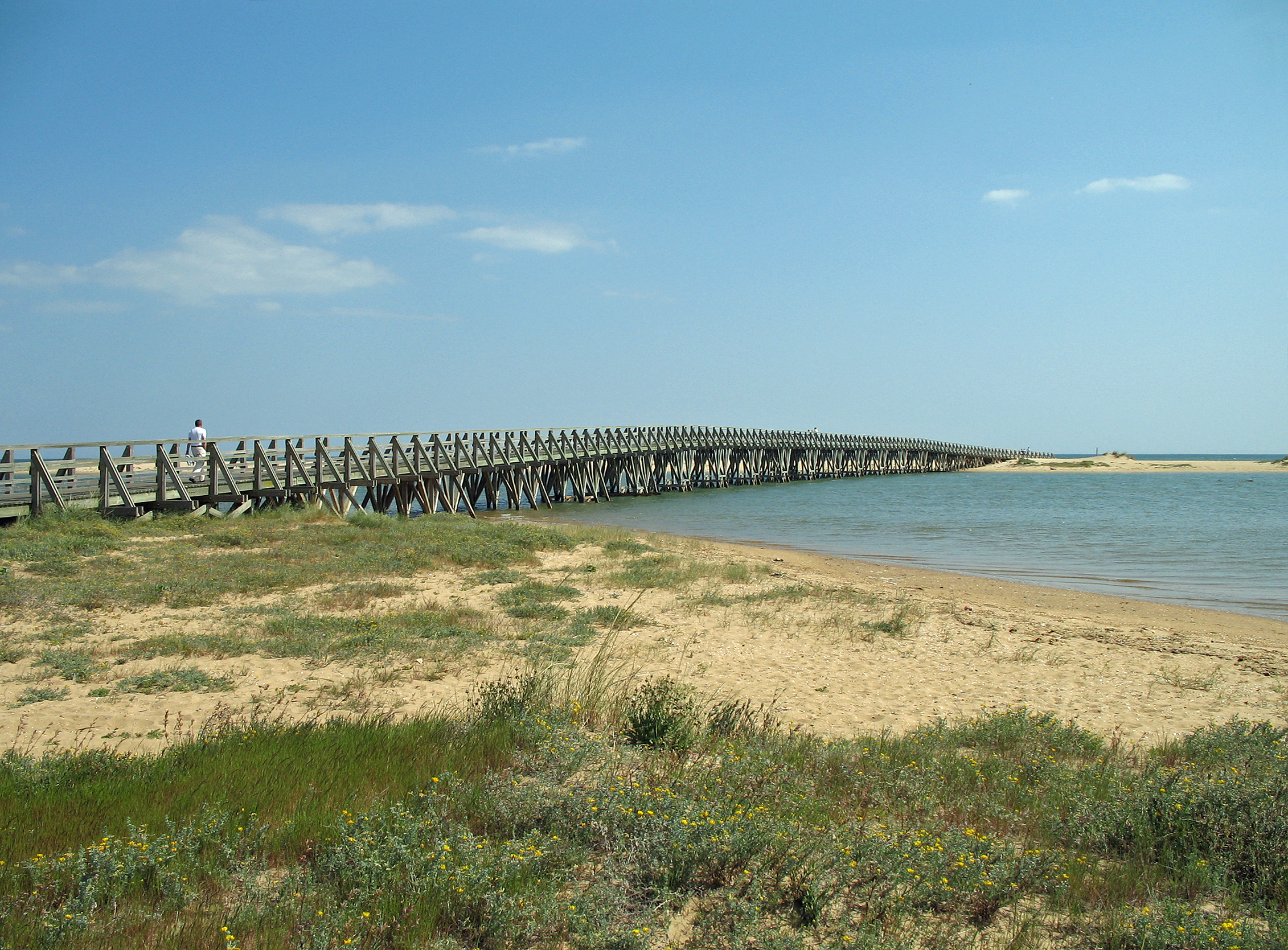 Isla Cristina (province of Huelva, Andalusia, Spain): La Gola footbridge